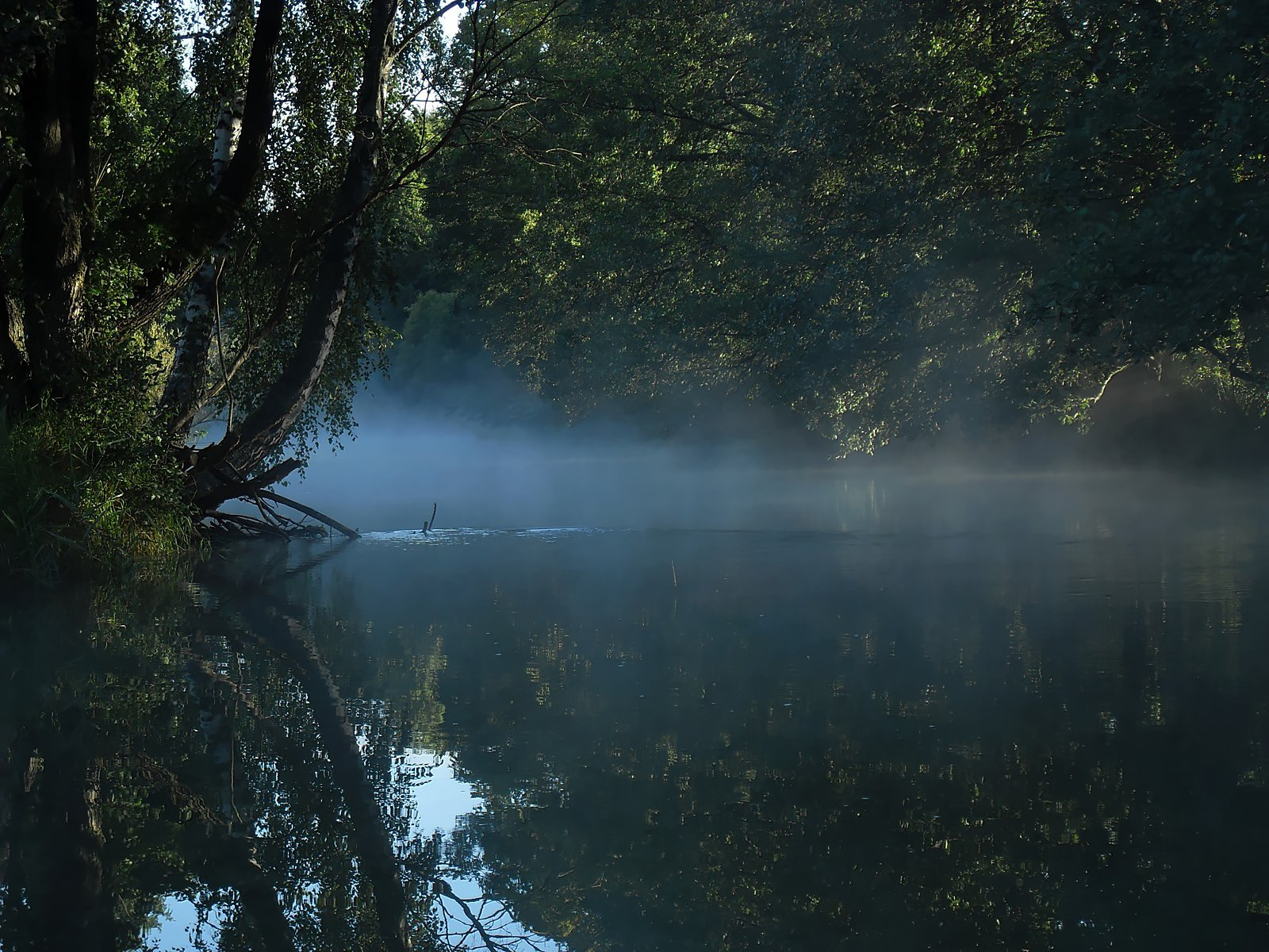 Fog enveloped Wda